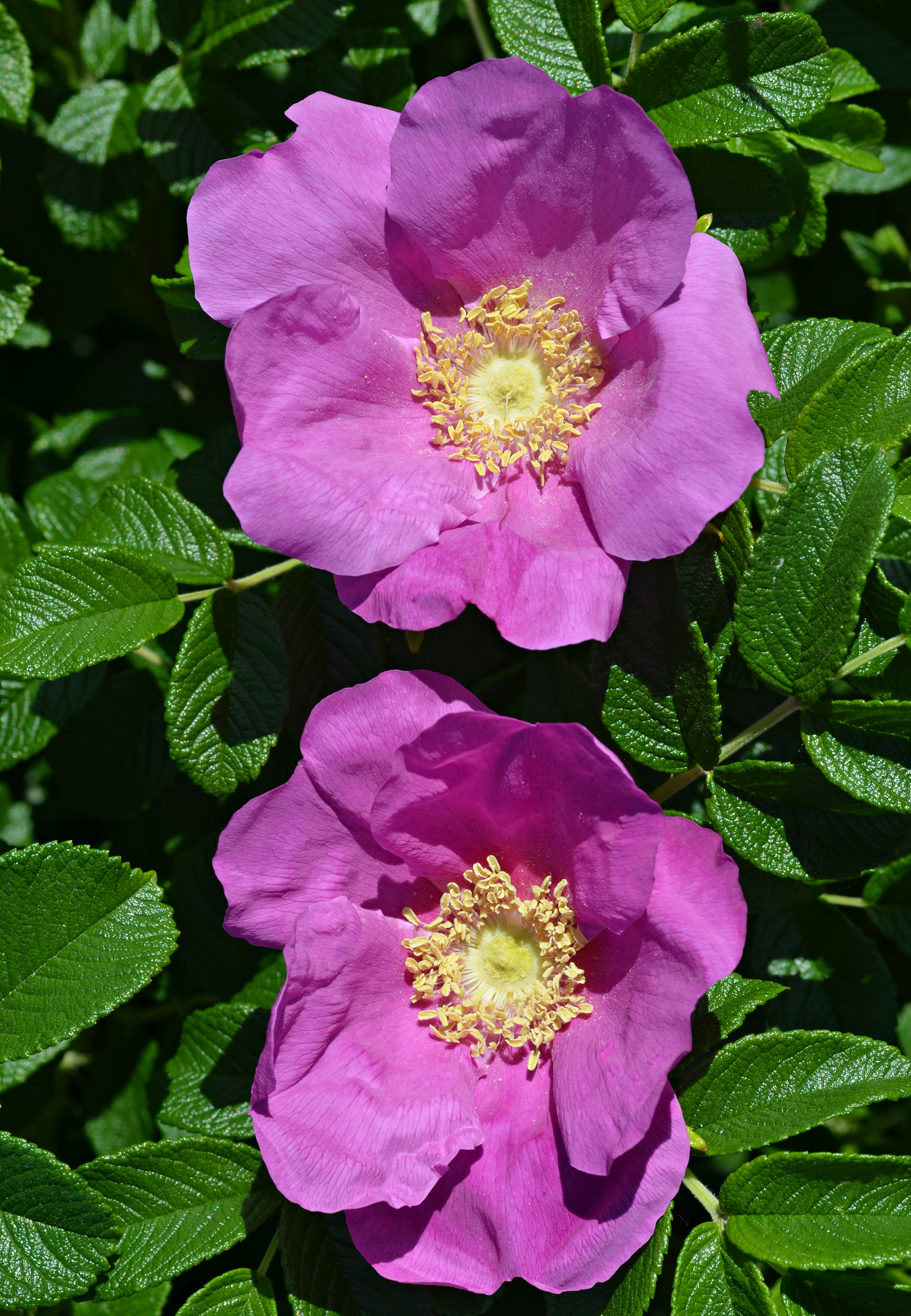 Two beach rose (Rosa rugosa en ) flowers.